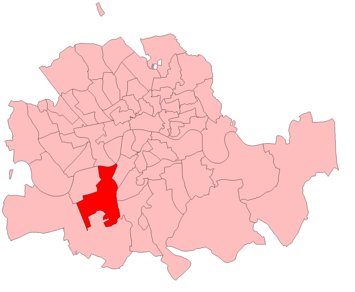 A map of Clapham constituency within the Metropolitan Board of Works area, as it existed from 1885 to 1918.